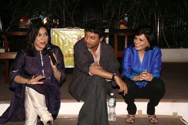 Release of the book The Namesake